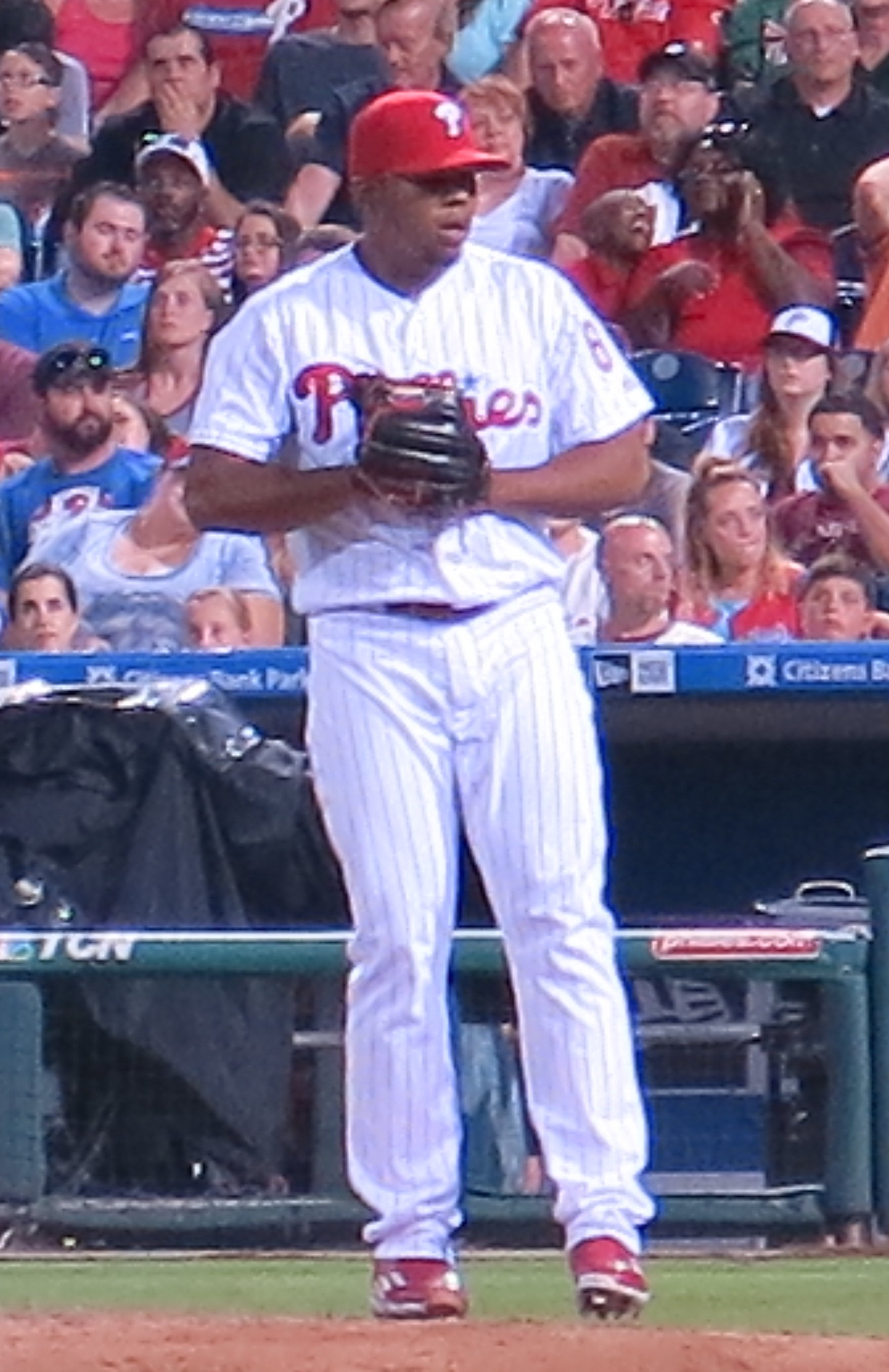 Edubray Ramos of the Philadelphia Phillies, July 16, 2016.